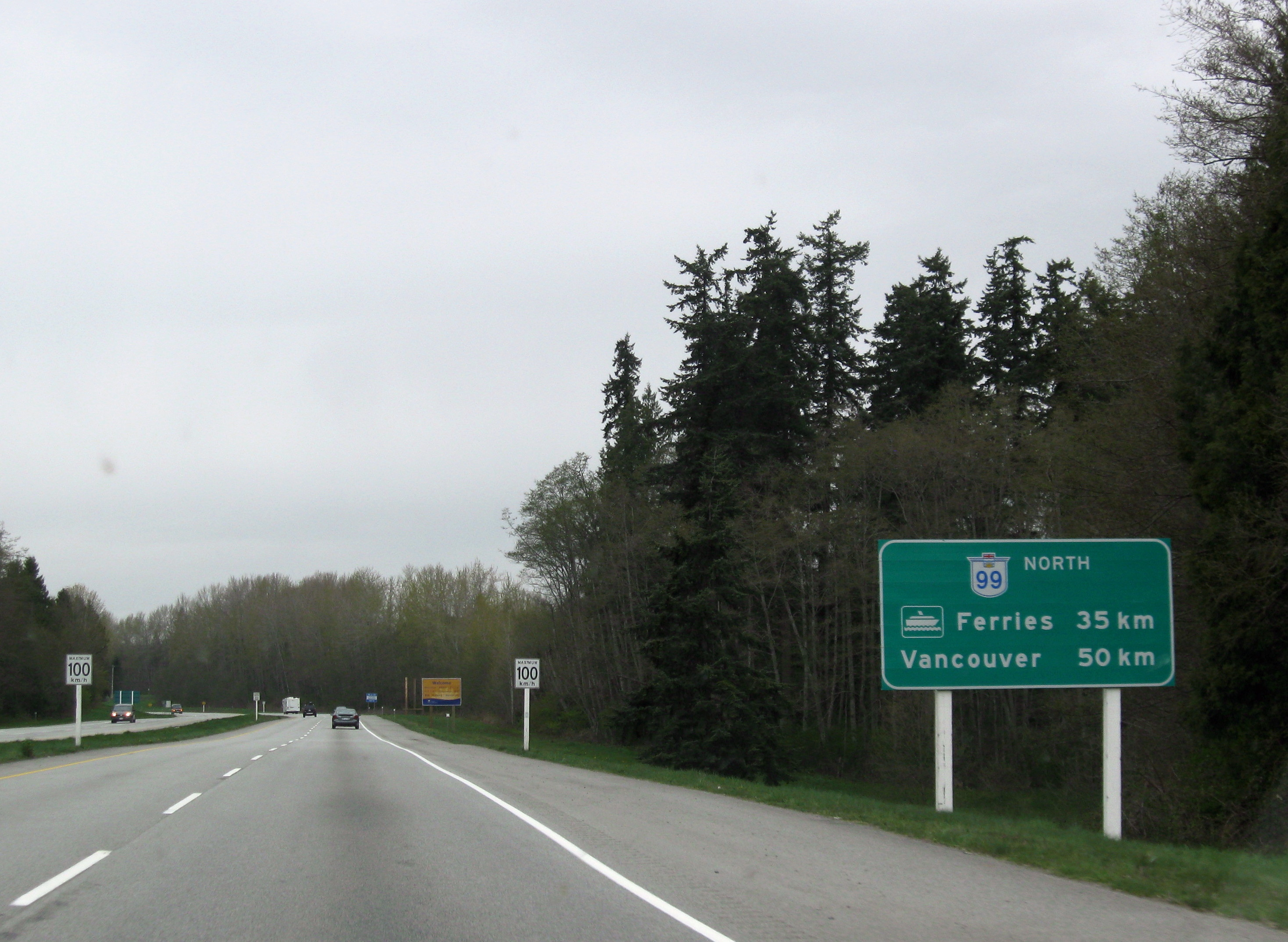 BC99 in Southern British Columbia